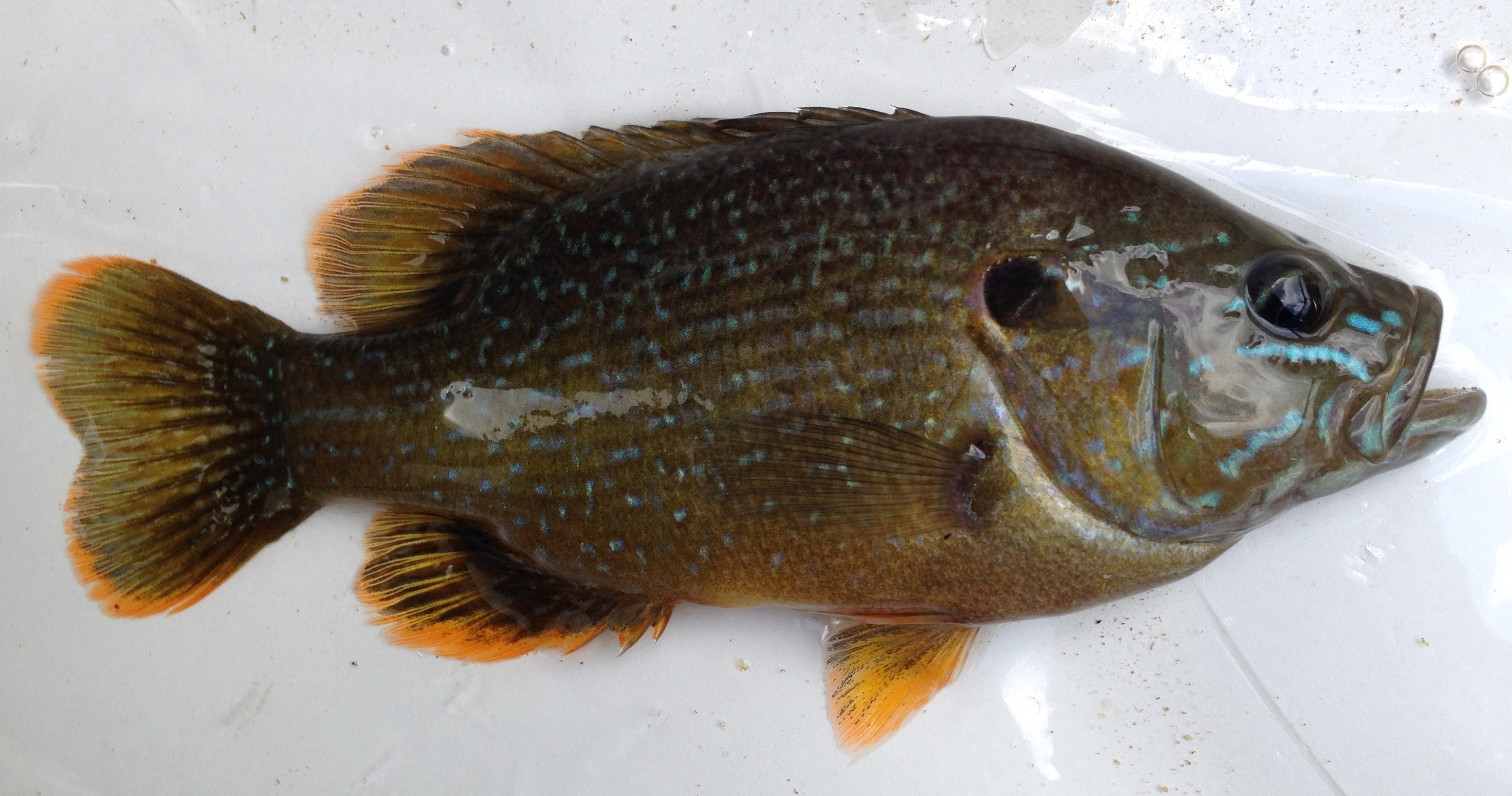 A green sunfish (Lepomis cyanellus) at the University of Mississippi Field Station.